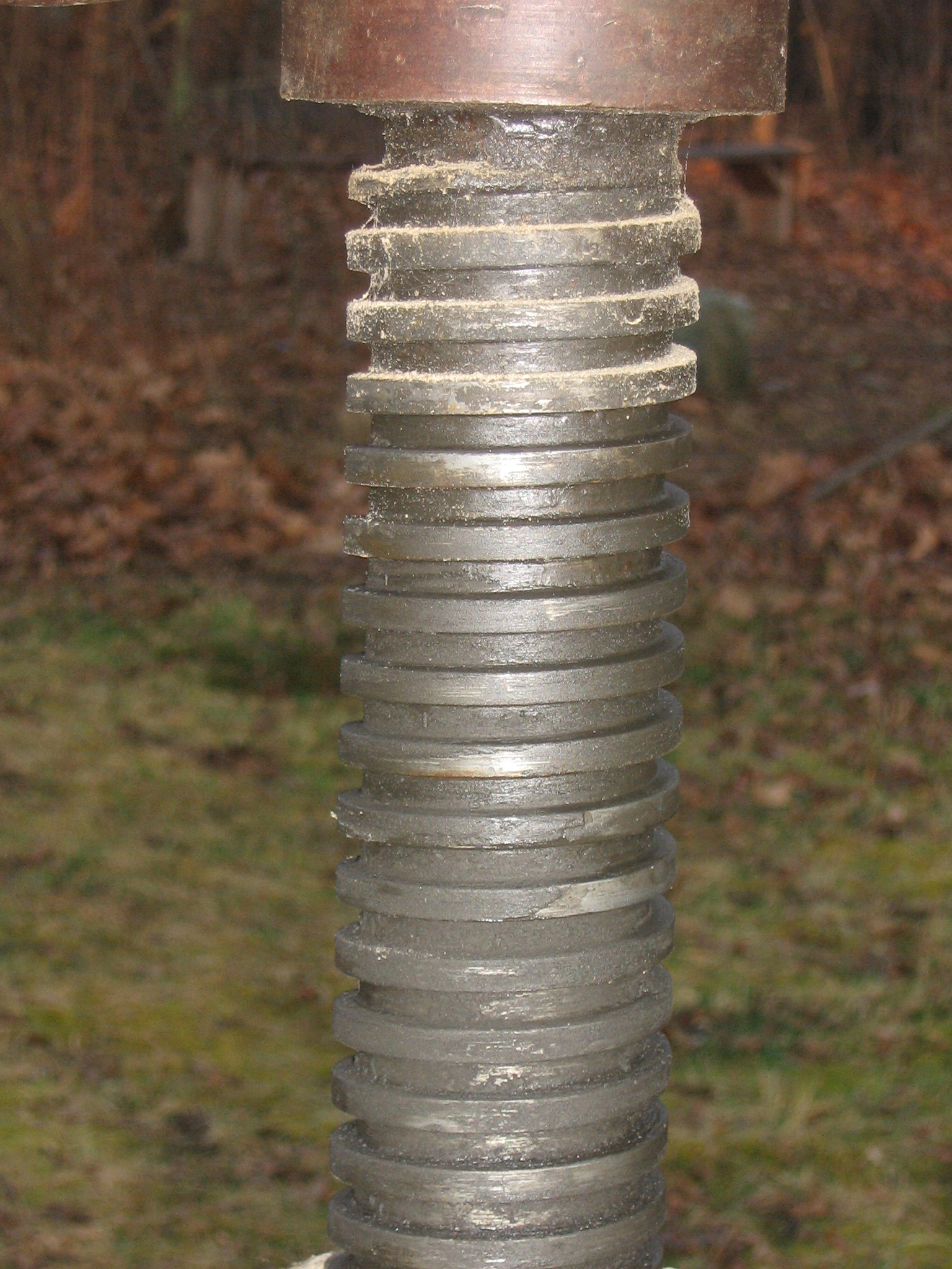 Close up on threaded rod of the house jack. Photo was taken in Johnalden's yard.